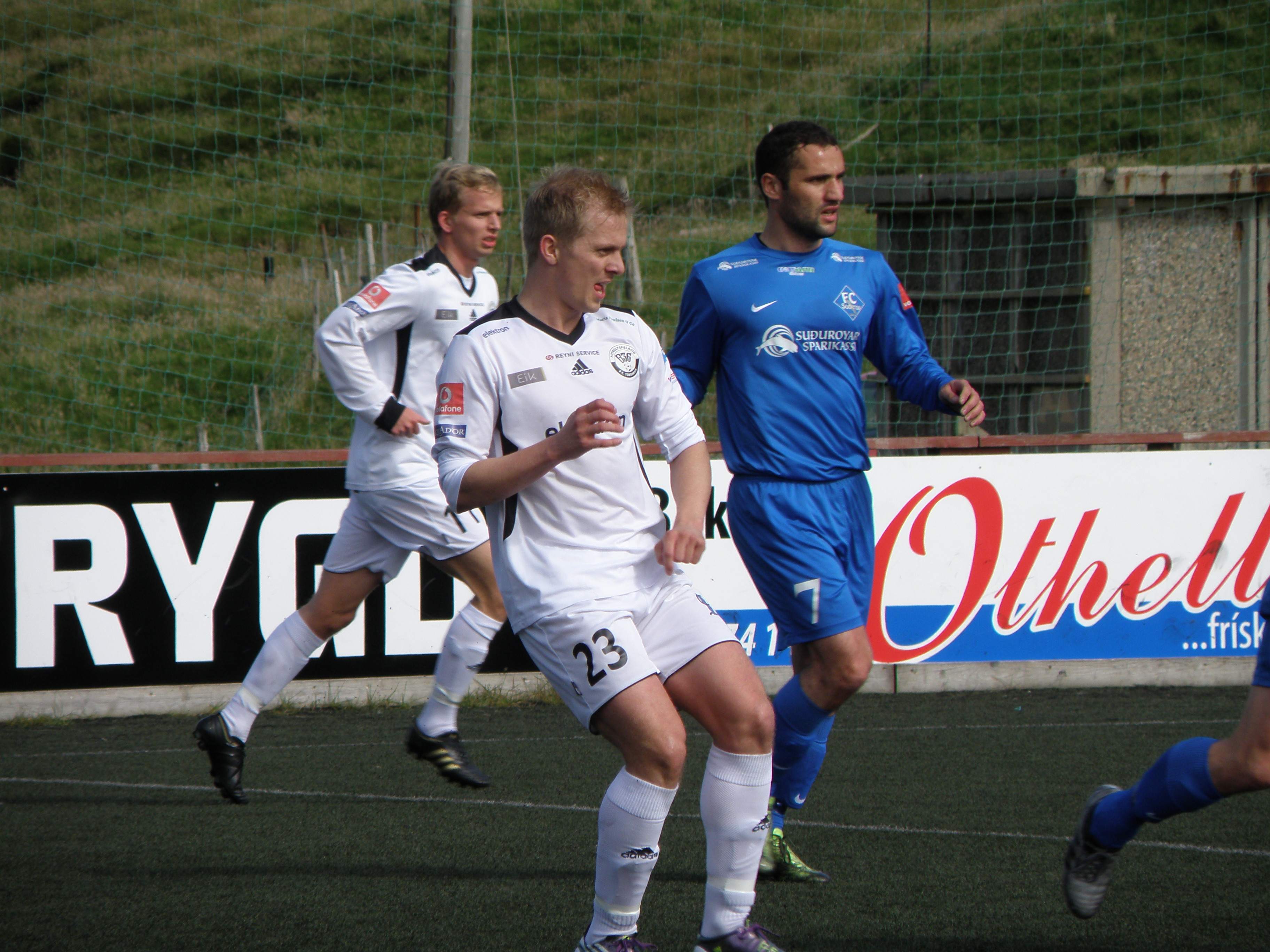 Football (soccer) match between FC Suðuroy and B36 Tórshavn in Vodafonedeildin in August 2010. FC Suðuroy won the match 2-1. The players on this photo are Christian R. Mouritsen, Hjalgrím Elttør from B36 and Mamuka Toronjadze (in blue) from FC Suðuroy. The match was played on Eiðinum football field in Vágur, Faroe Islands. Føroyskt: Dystur millum FC Suðuroy og B36 í Vodafonedeildini (Currently Effodeildin) 2010. FC Suðuroy vann dystin 2-1 á heimavølli vesturi á Eiðinum í Vági. Leikararnir á myndini eru Christian Mouritsen, Hjalgrím Elttør og Mamuka Toronjadze.